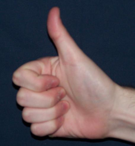 Than Ball, my own work, photo taken by me. Depicts Thumb